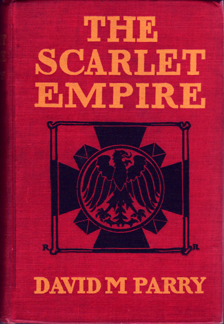 "The Scarlet Empire" by David MacLean Parry, first edition book cover, March 1906 (Indianapolis, IN: The Bobbs-Merrill Co.), 400 pp.